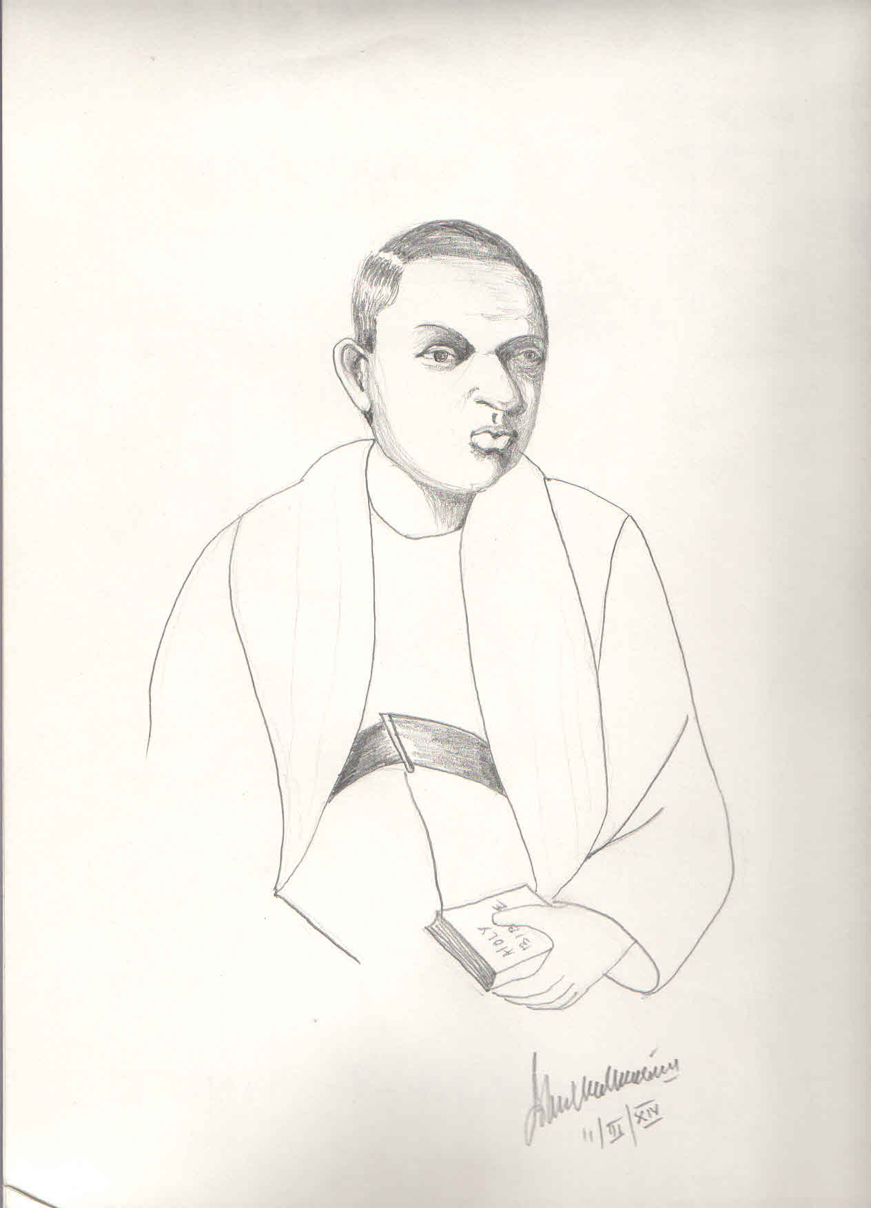 George Mathan, writer and grammarian.